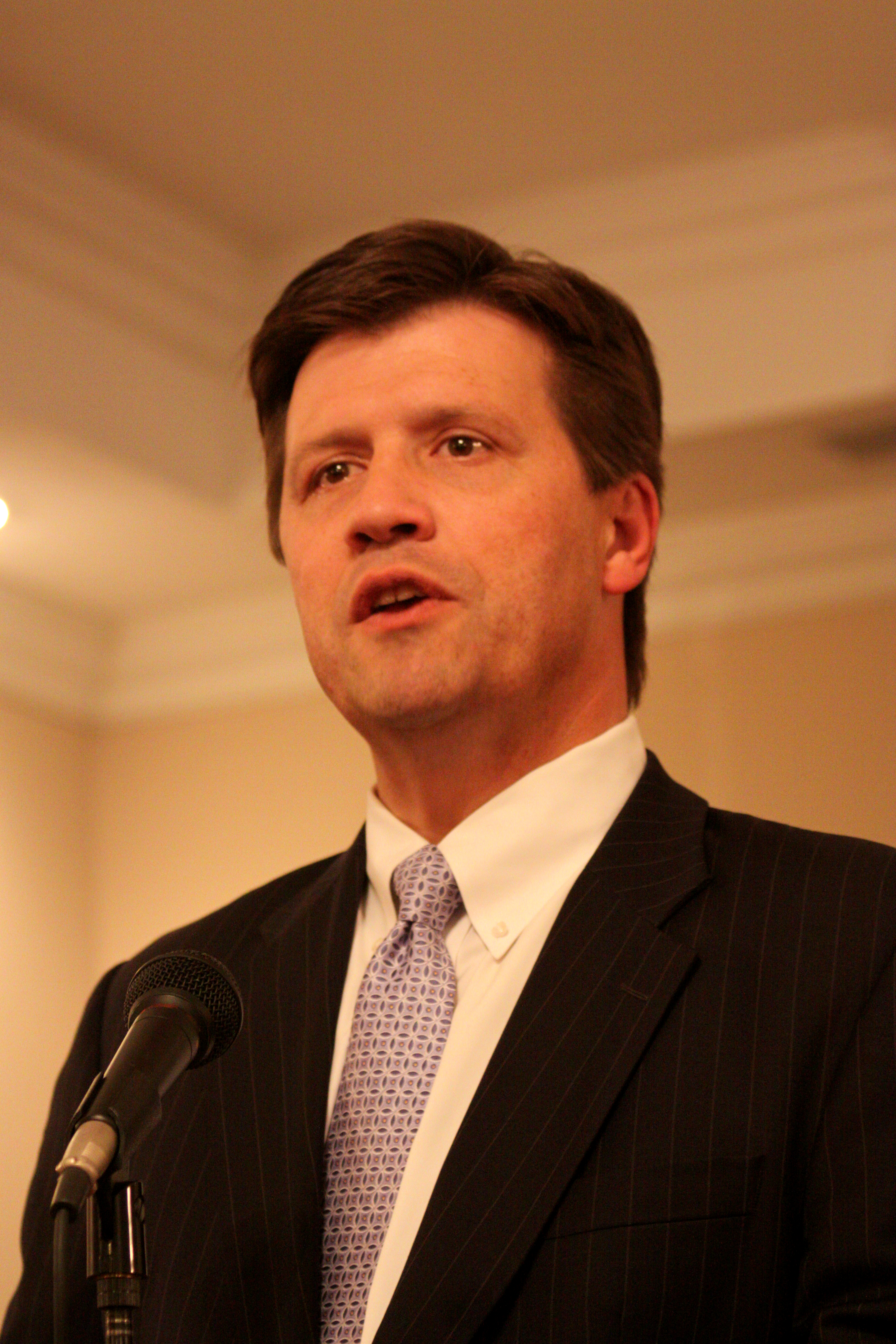 United States Senate candidate John Hostettler at a townhall in Washington, Indiana.